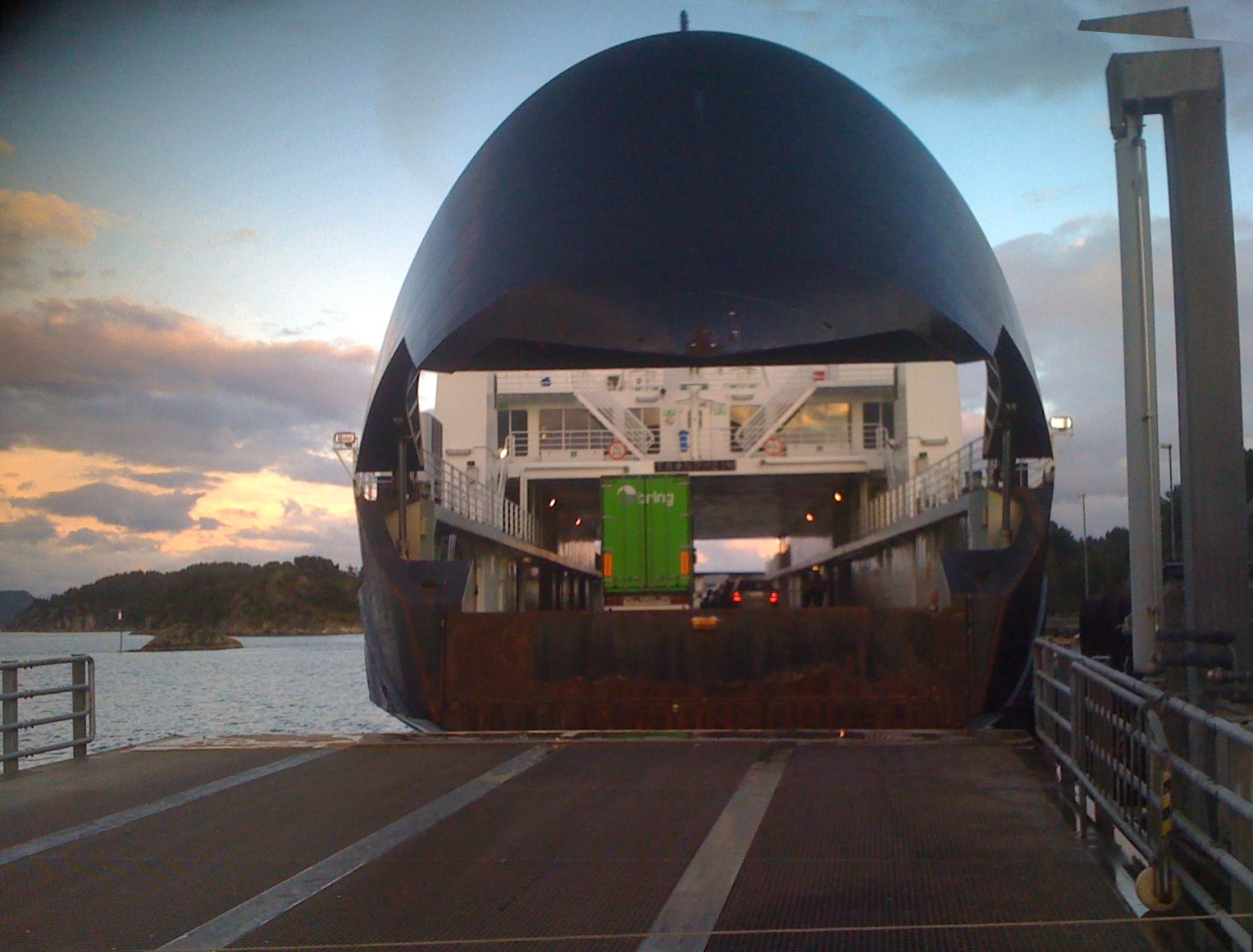 Flakk–Rørvik Ferry MF Trondheim at Krokeidet